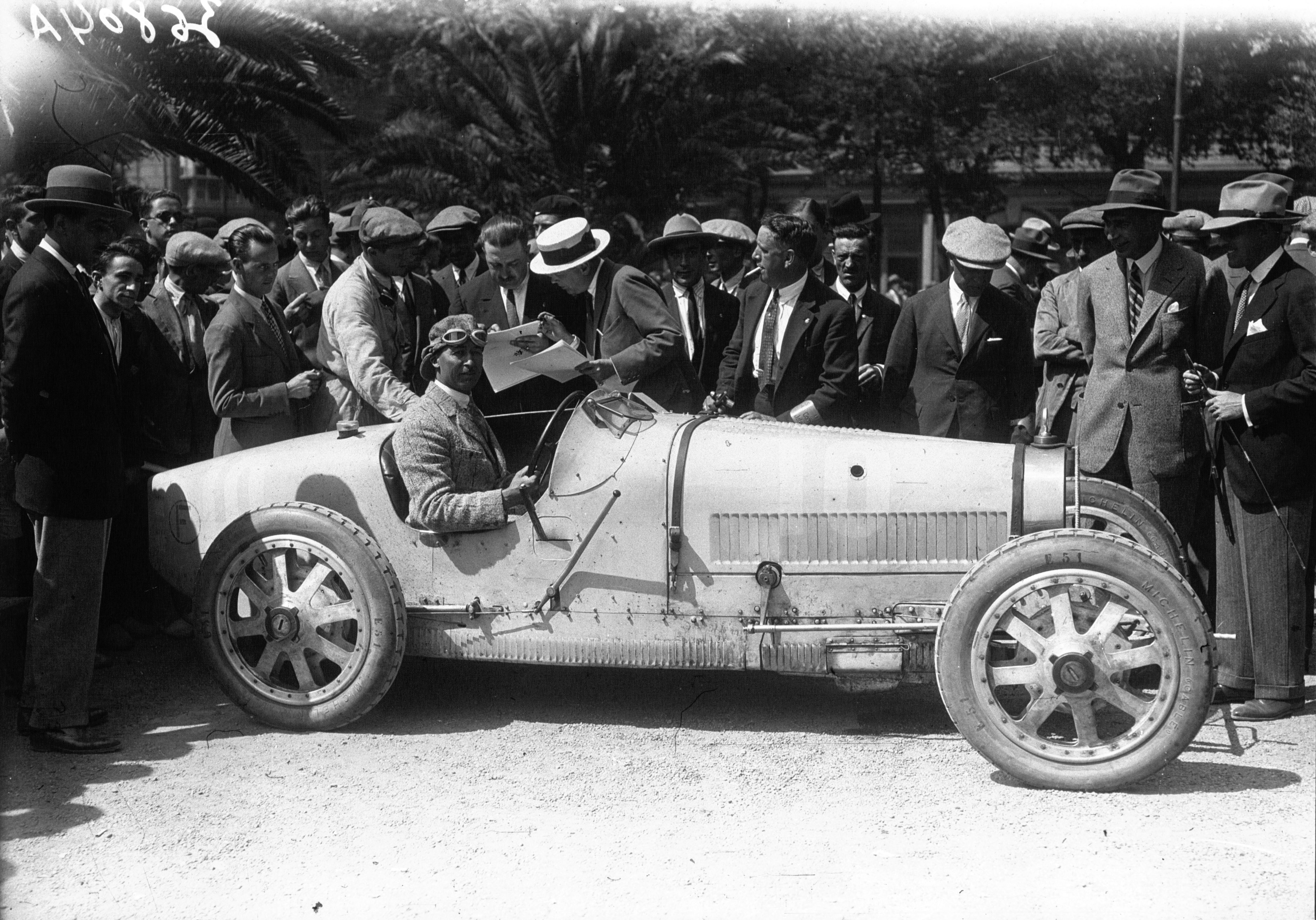 Jules Goux at the 1926 San Sebastián Grand Prix